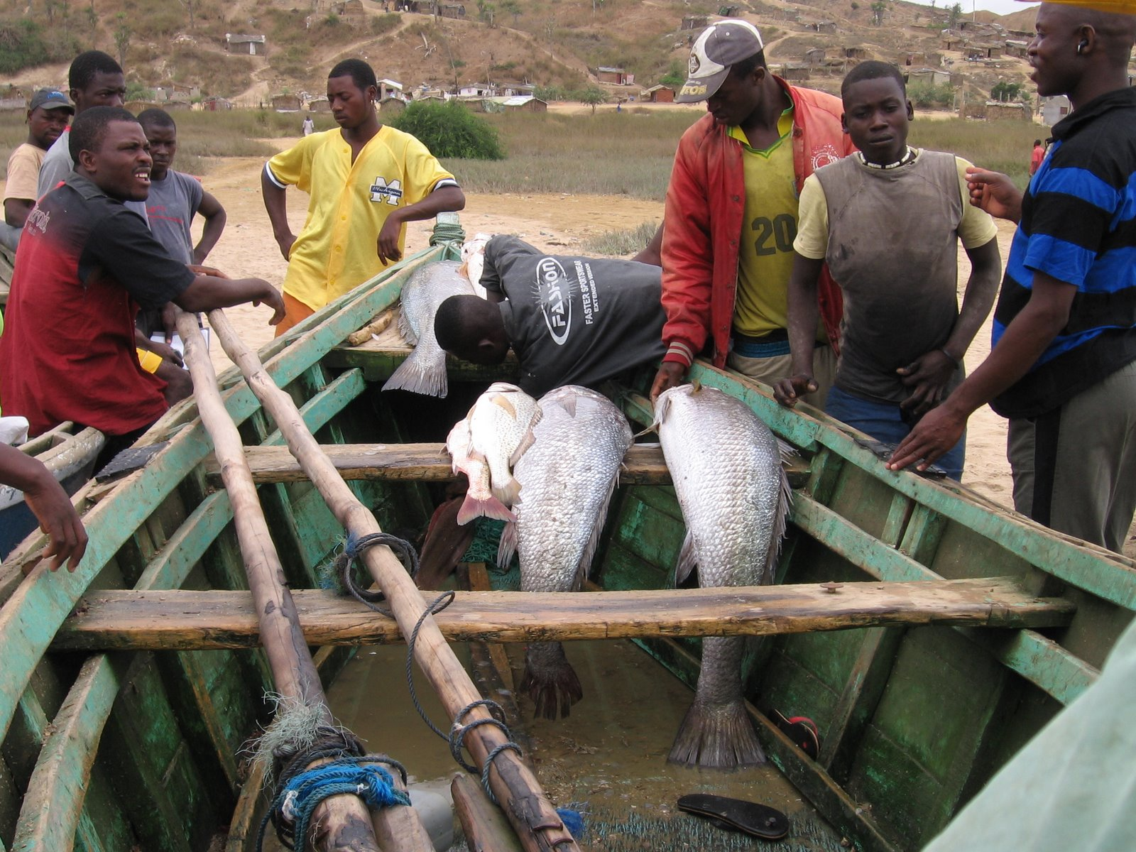 Fishermen in Angola